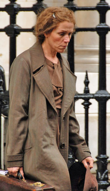 Frances McDormand on the set of Miss Pettigrew Lives for a Day in May 2007. depicted person: Frances McDormand (age: 49.89)